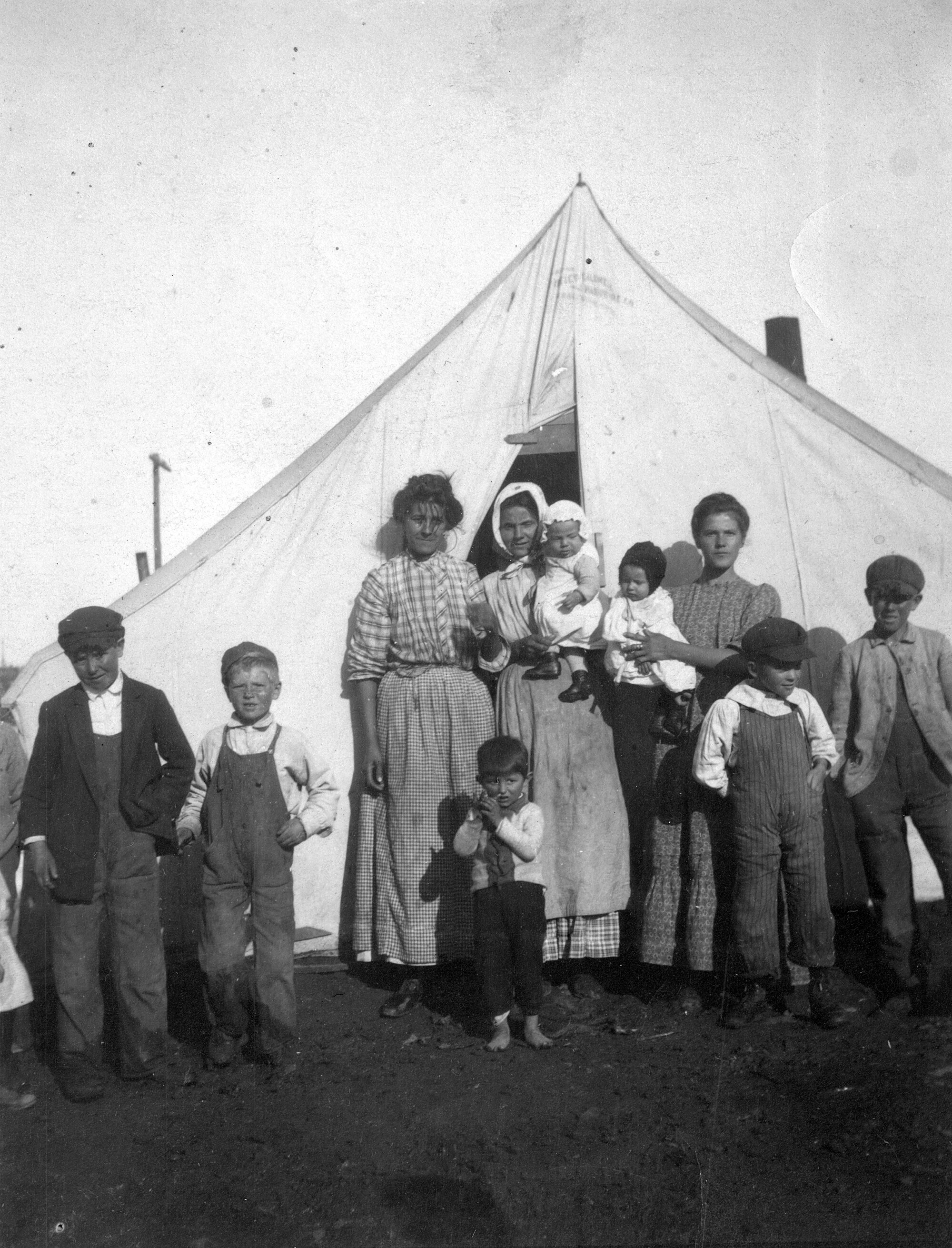 Three women, wives of striking coal miners, and their children stand outside of a tent at the Ludlow colony, the site of the coal strikes and the subsequent massacre, in Ludlow, Colorado in Las Animas County.